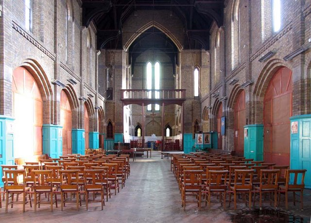 St Mary w St John's Church, Dyson's Road, London N18 - East end